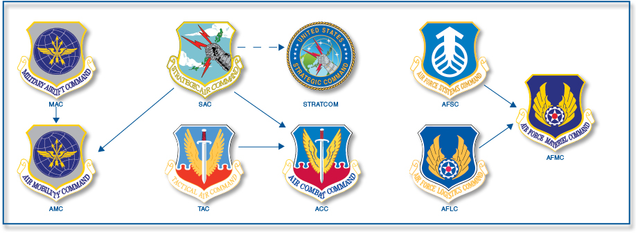 Reorganization of major commands of the USAF at the end of the Cold War.